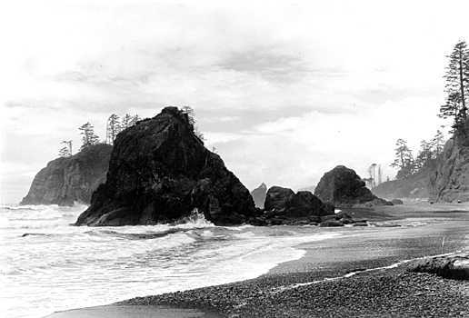 The rocks and the Pacific Ocean at Ruby Beach near Olympus